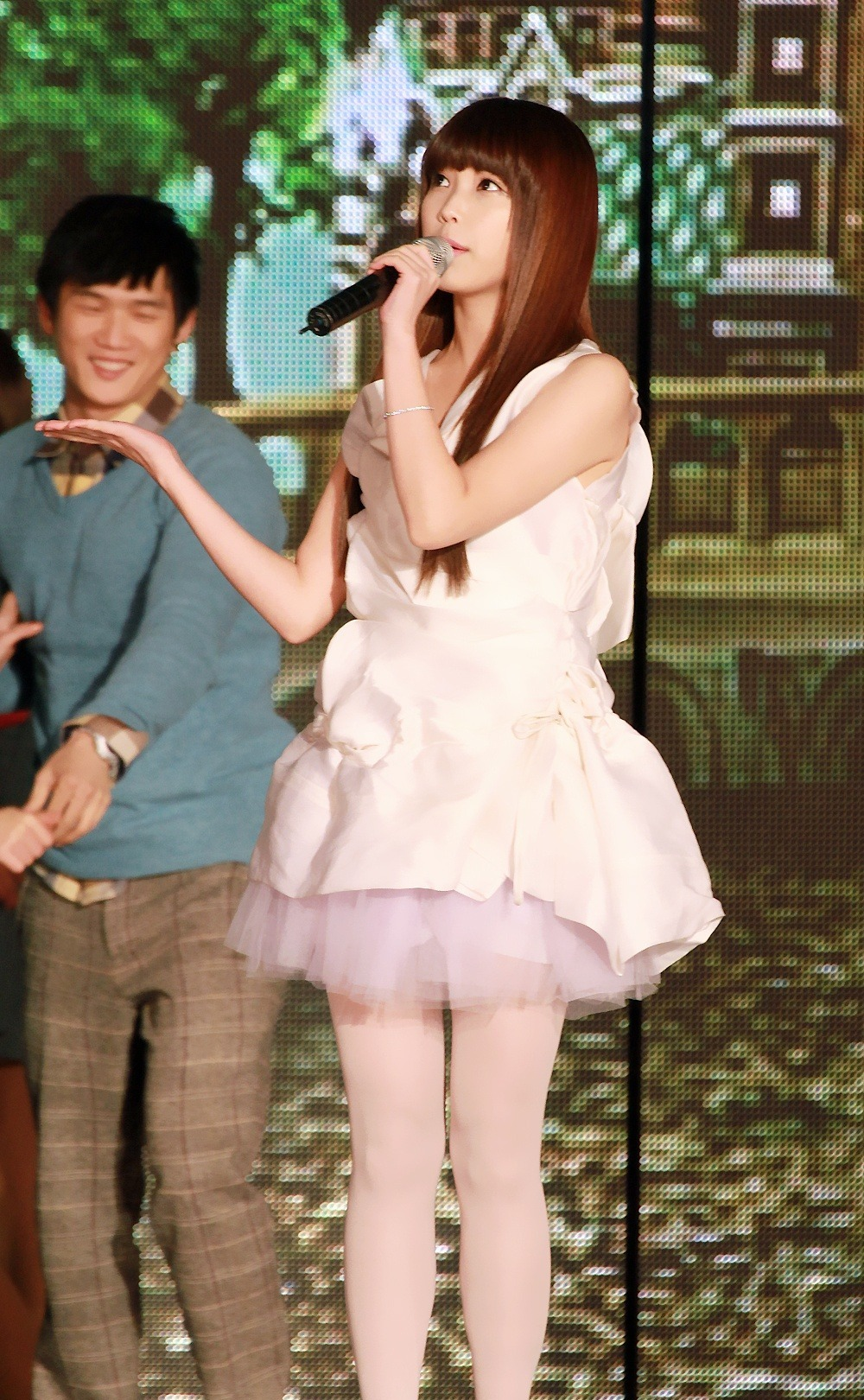 Korean singer IU performing "Good Day" at SBS Gayo Daejun on December 29, 2010